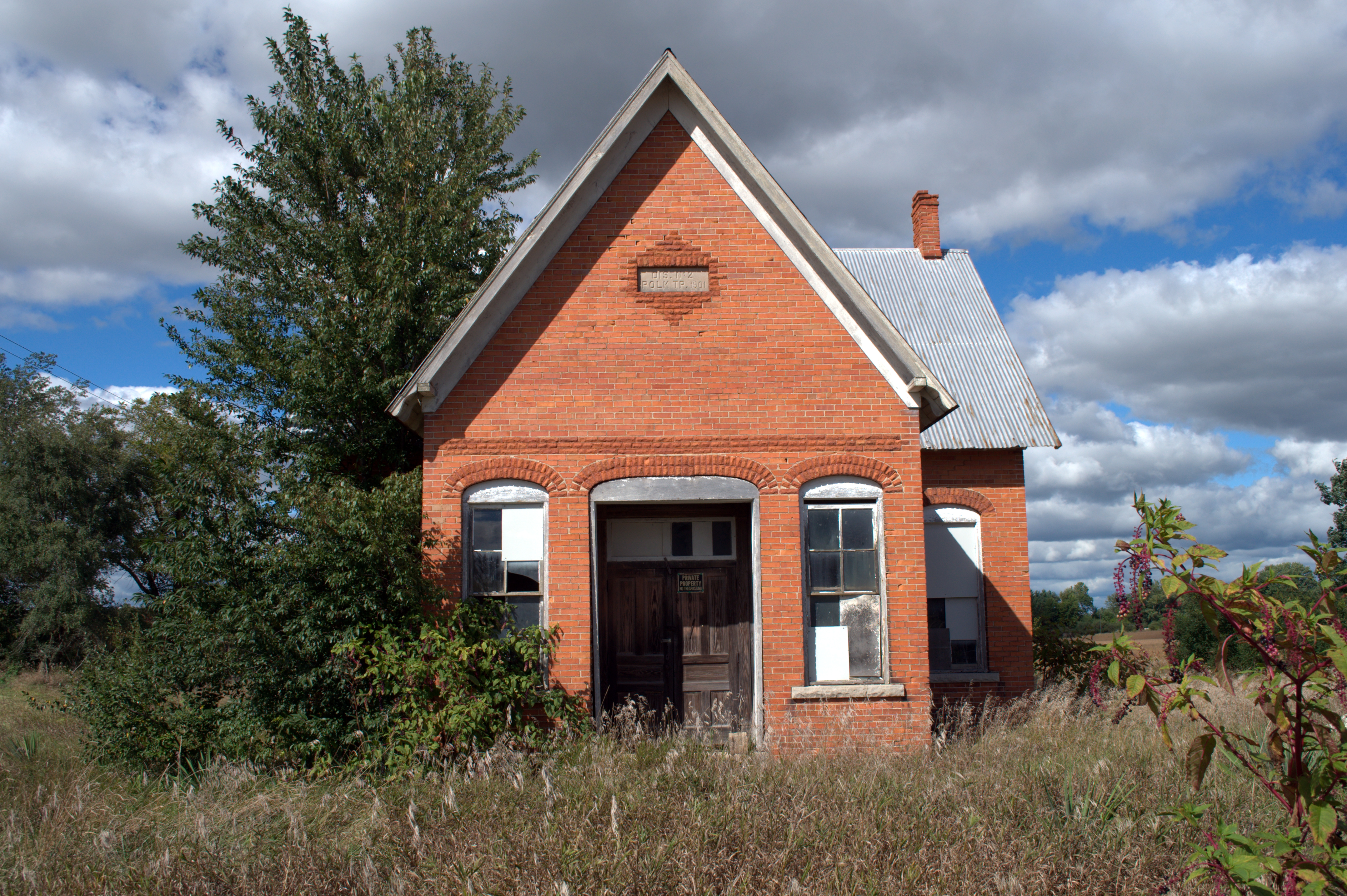 Polk Township District No. 2 School, 18998 W. 2A Rd., southeast of Walkerton Polk Township Front of the schoolhouse.